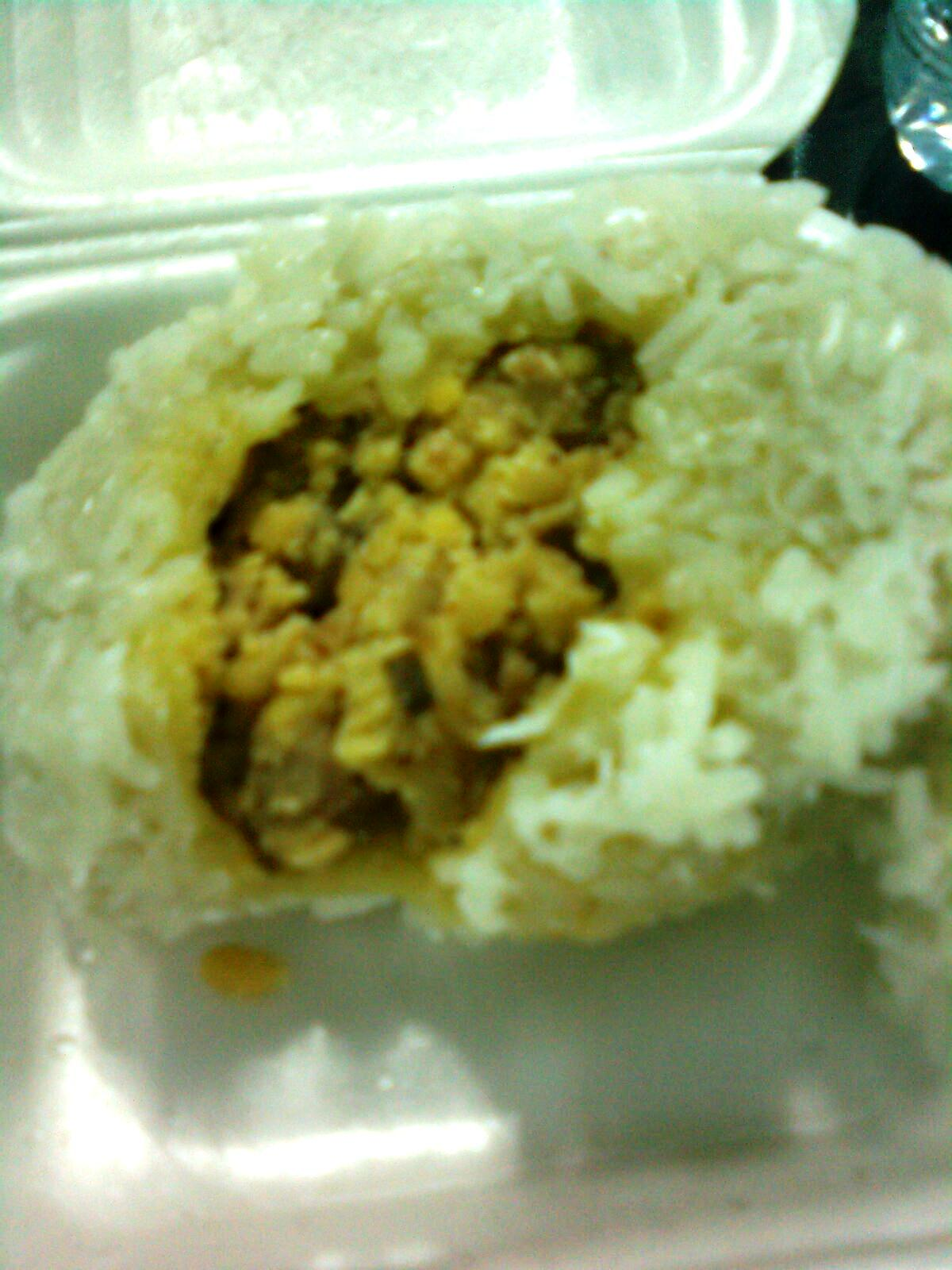 Vietnamese xôi khúc